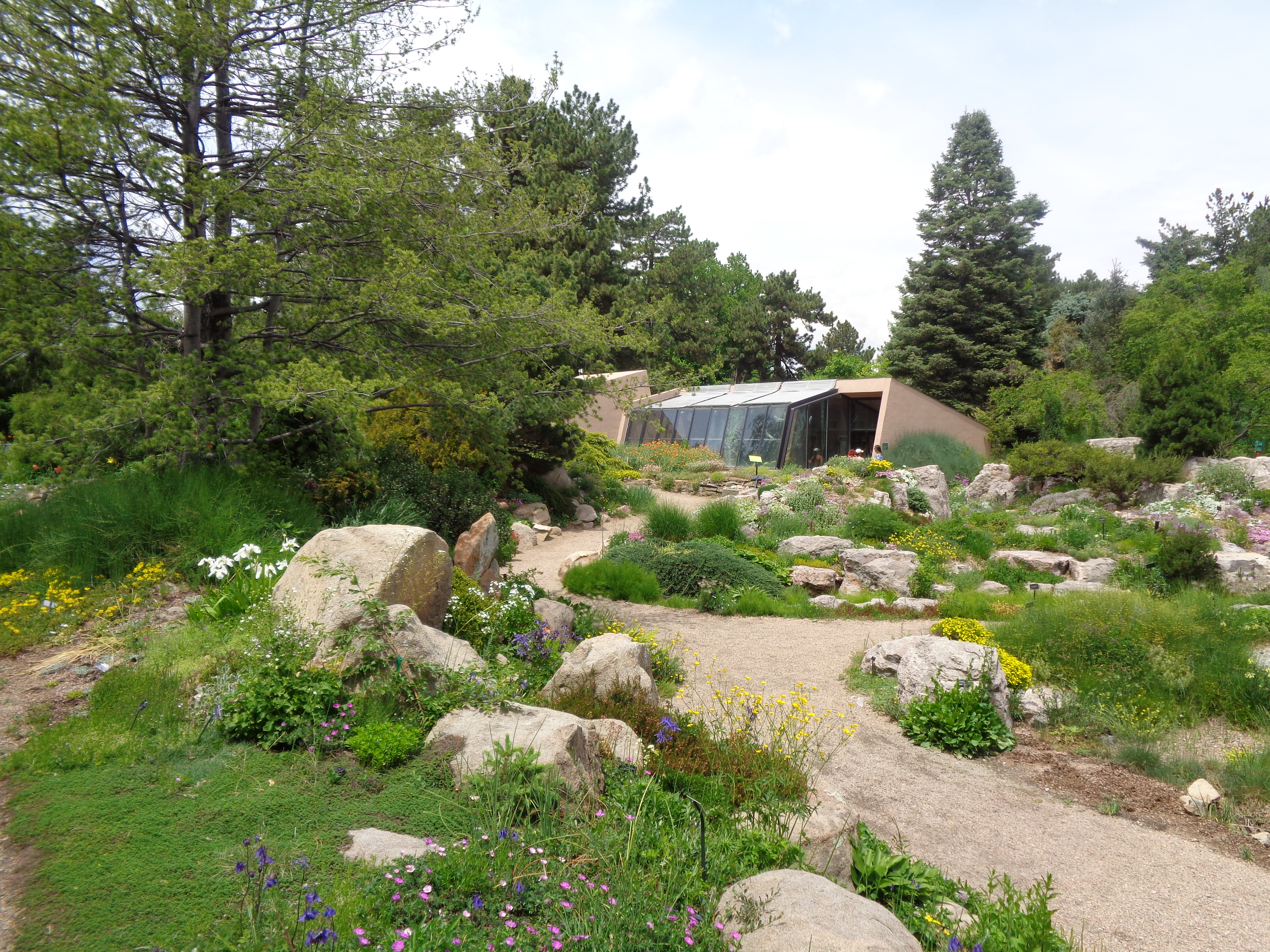 Alpine Garden at Denver Botanic Gardens. Succulent House in the background.